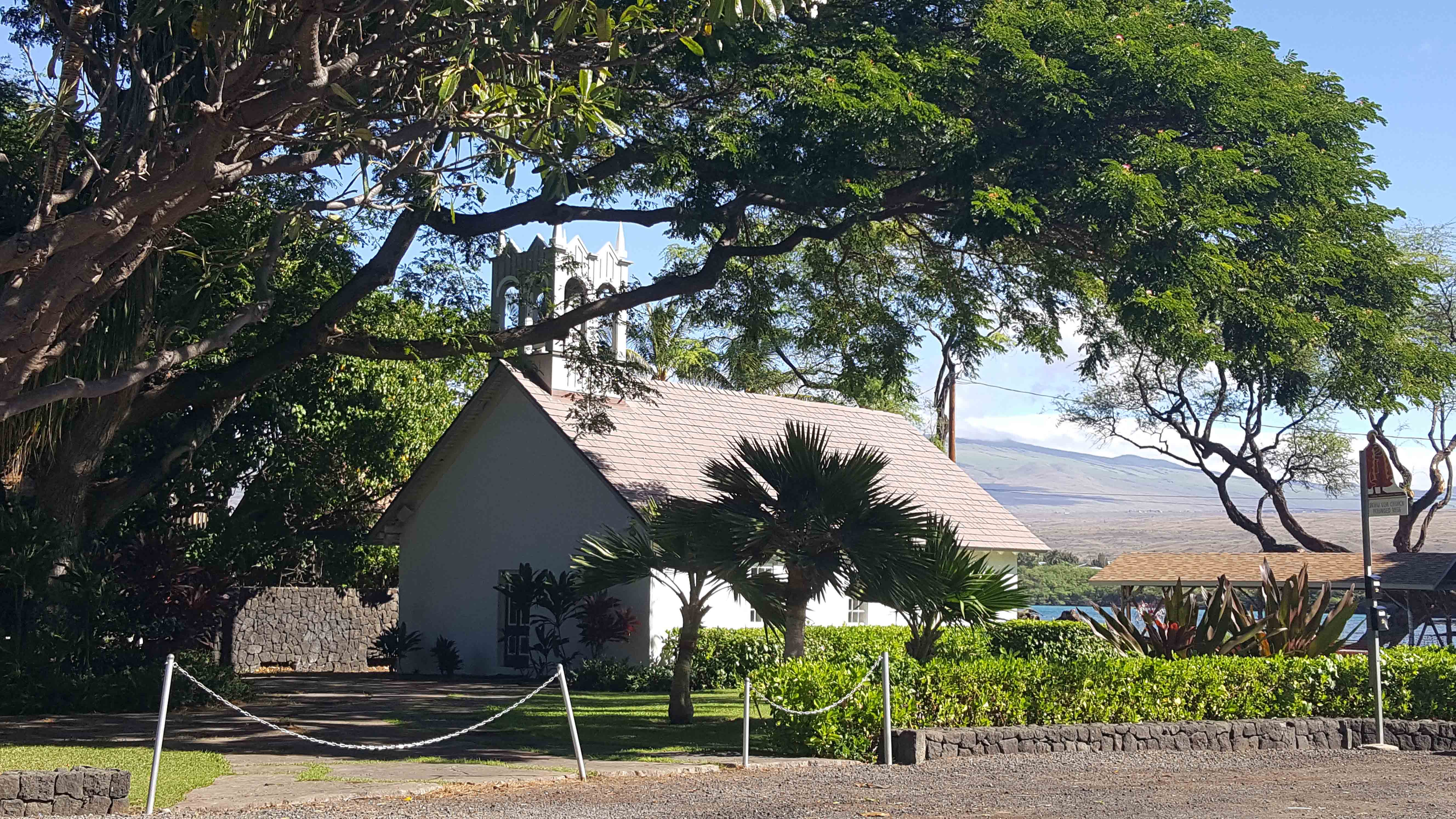 Hokuloa Church, Puako, Hawaii, built in 1856